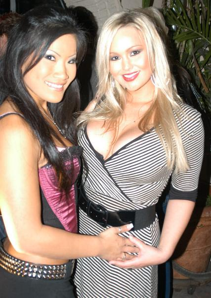 March 8, 2007: Jack Lawrence's 40th Birthday Party